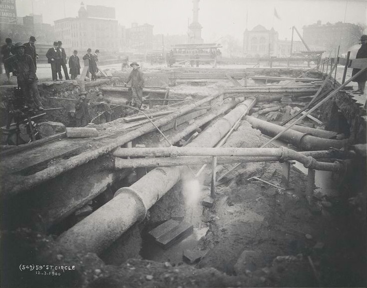 Columbus Circle during construction of the New York City Subway in 1900.